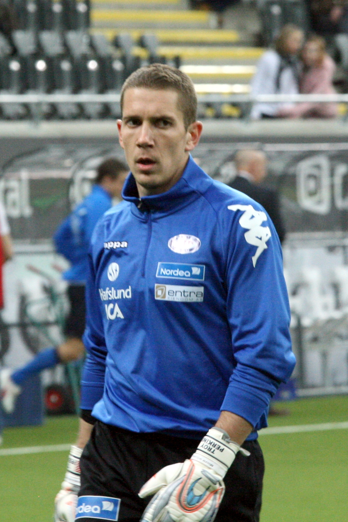 U.S. footballer Troy Perkins.